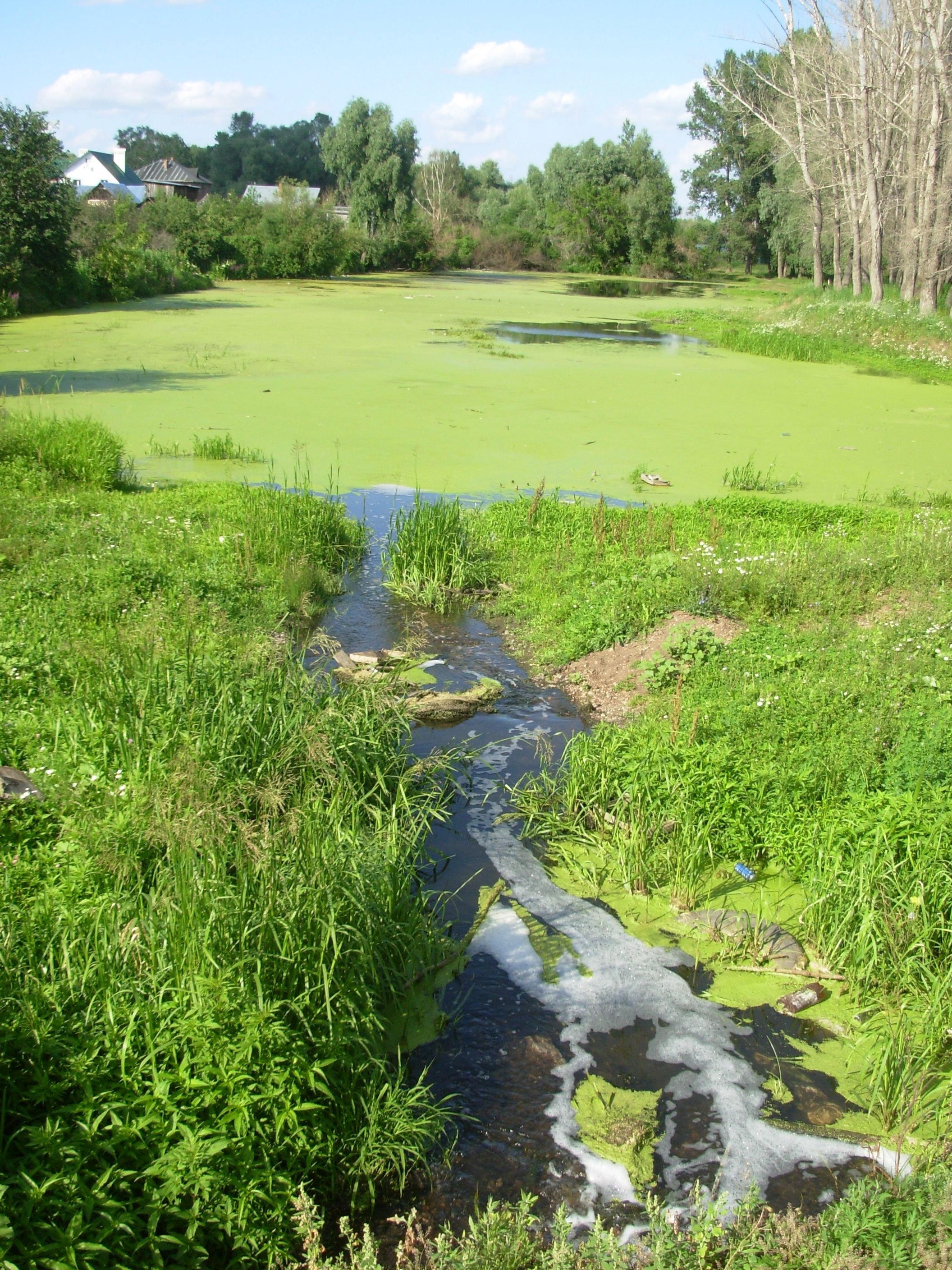 steet